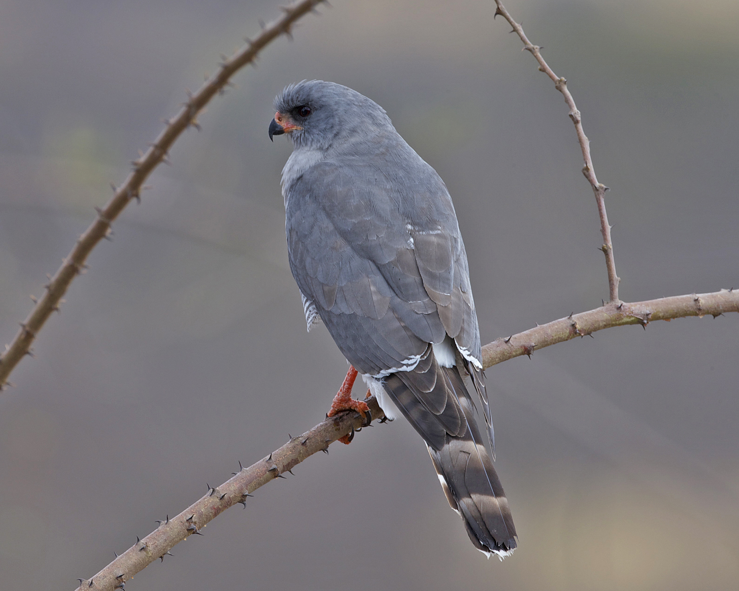 A Gabar Goshawk near Kilimanjaro, Kambi ya Tembo, Tanzania.